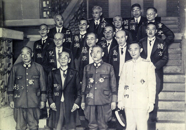 Japanese Prime Minister Kuniaki Koiso (1880–1950, in office 1944–45, third from the left, front row) and the members of his cabinet, including Naval Minister Mitsumasa Yonai (to the right of Koiso) who was ranked with the prime minister, on the inaugural day of his administration.